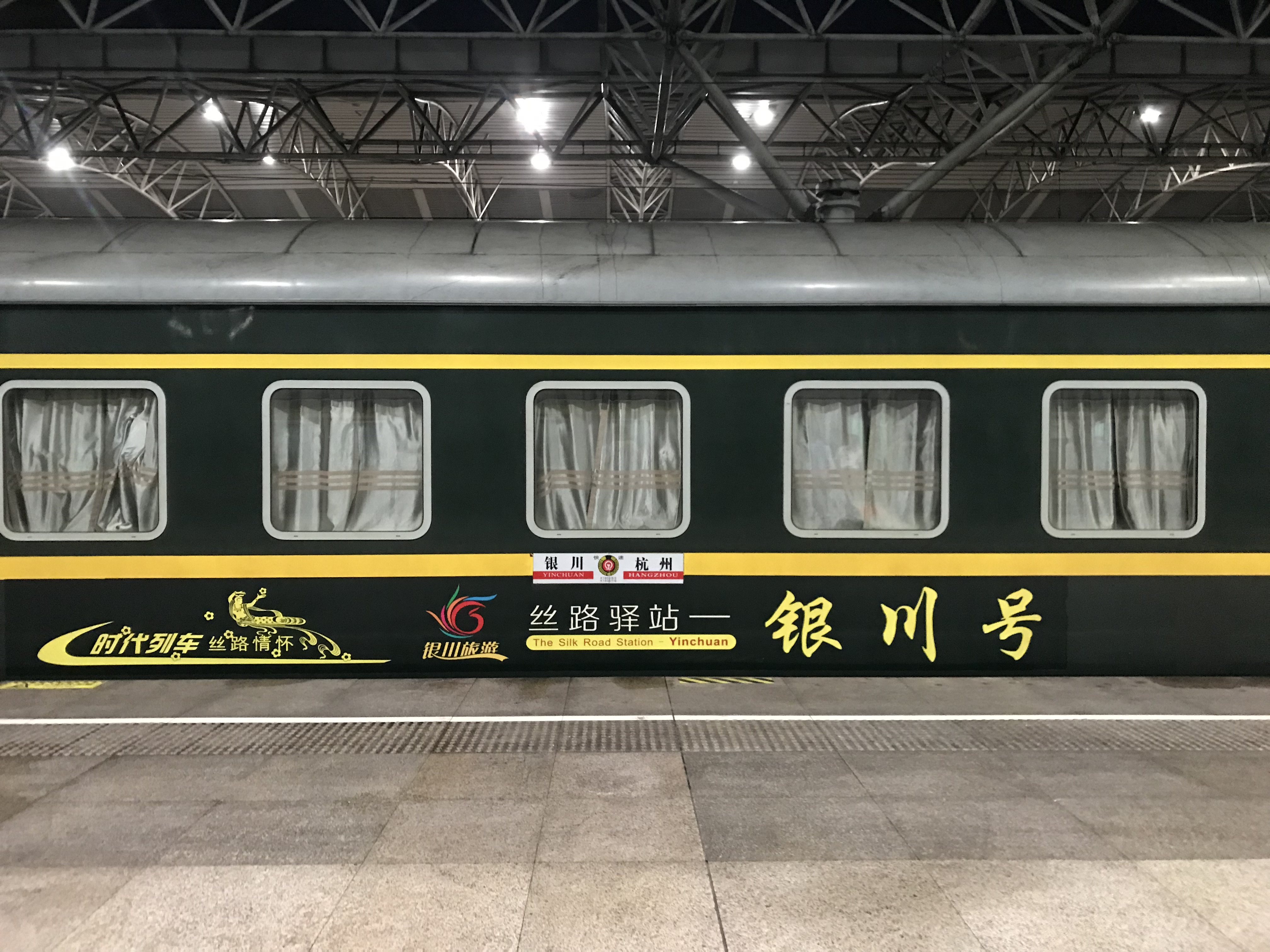 Taken at Shanghainan Station